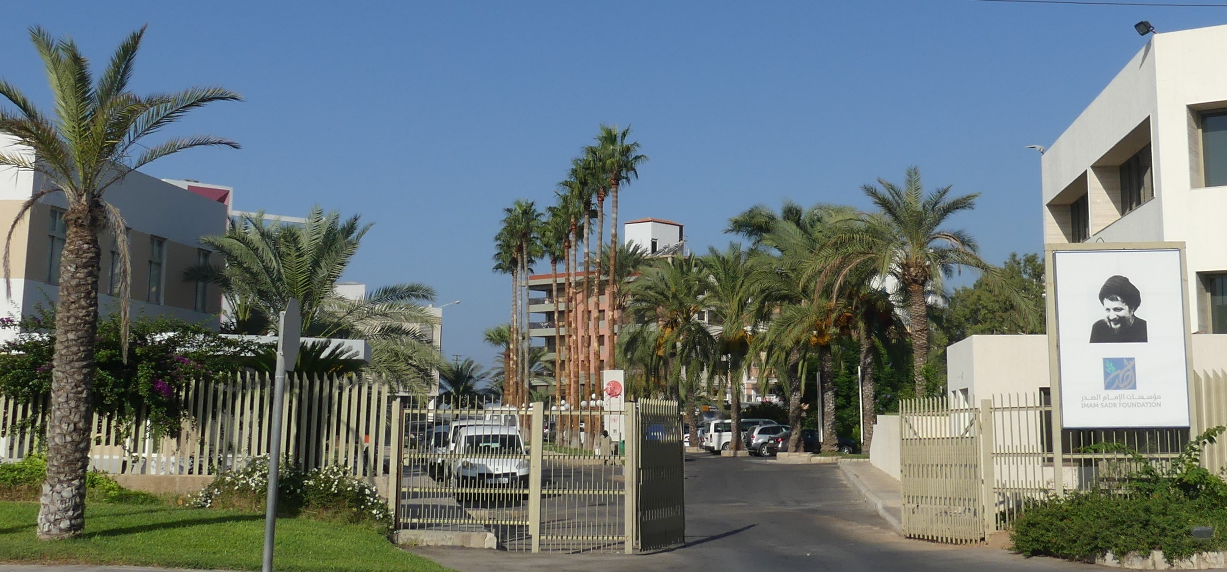 The compound of the main base of the Imam Sadr Foundation in Tyre/Sour, Southern Lebanon, which engages in educational activities in various parts of the country. It is named after the vanished Shiite leader Musa al-Sadr and led by his sister Rabab al-Sadr.